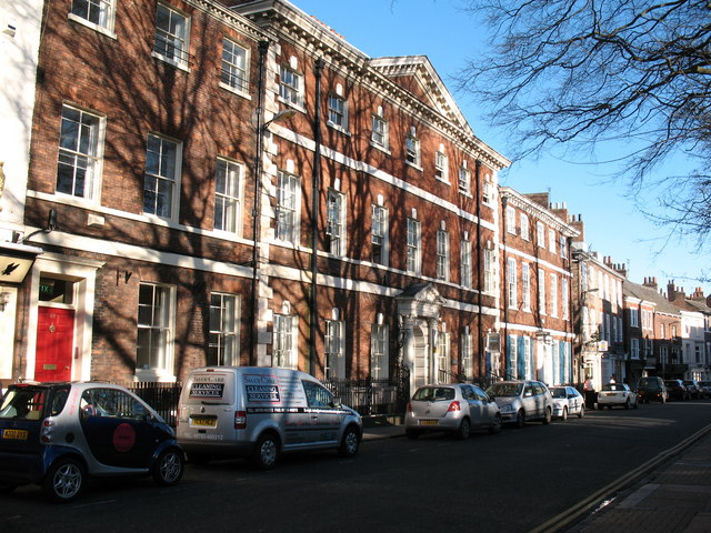 Micklegate House The grandest house in one of the best streets in York. Micklegate House is by John Carr and was built in 1753 for John Bouchier [1710-1759] of Beningbrough Hall. A very grand town house for a very wealthy man.